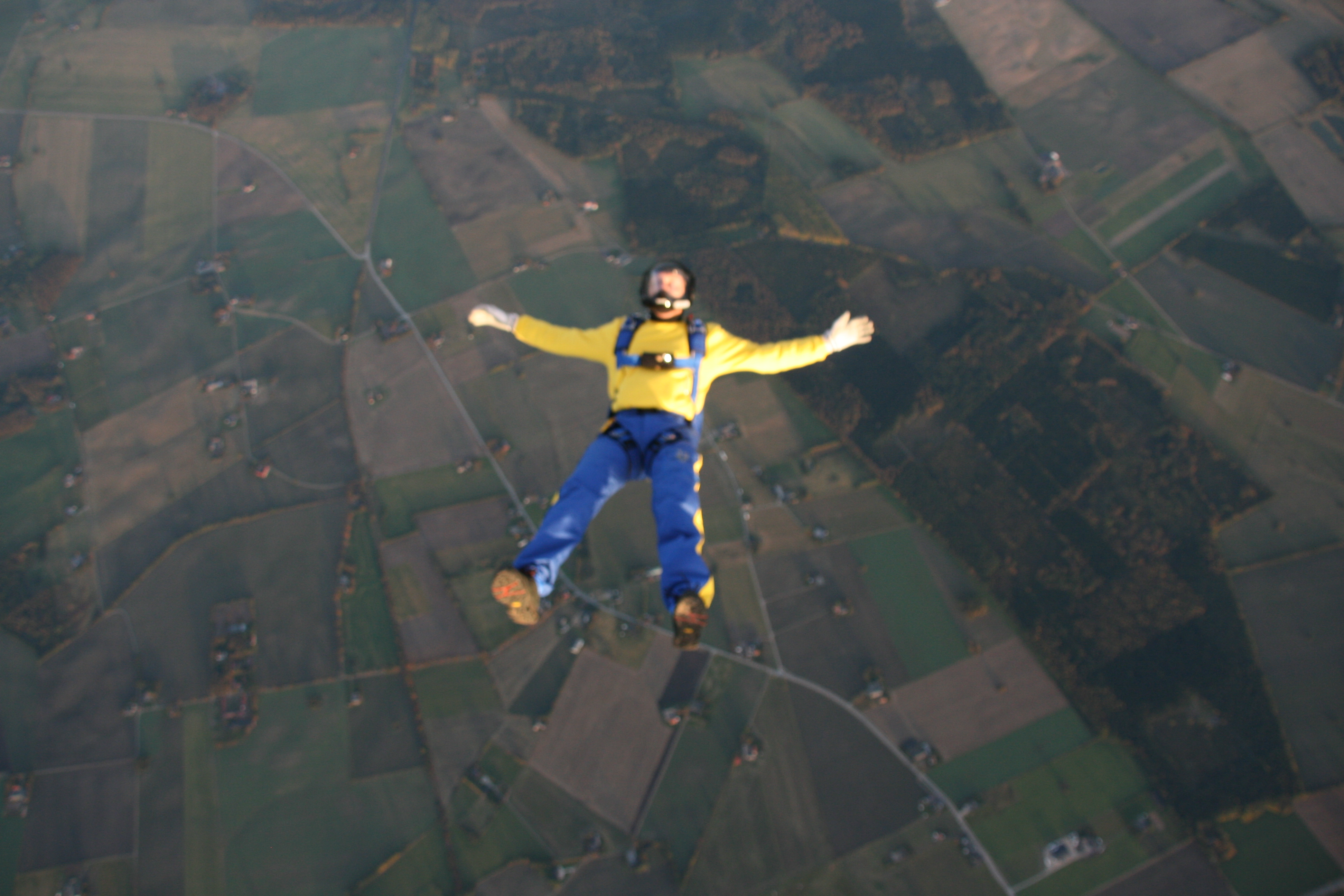 Skydiver over Eslov in Sweden after just leaving aircraft